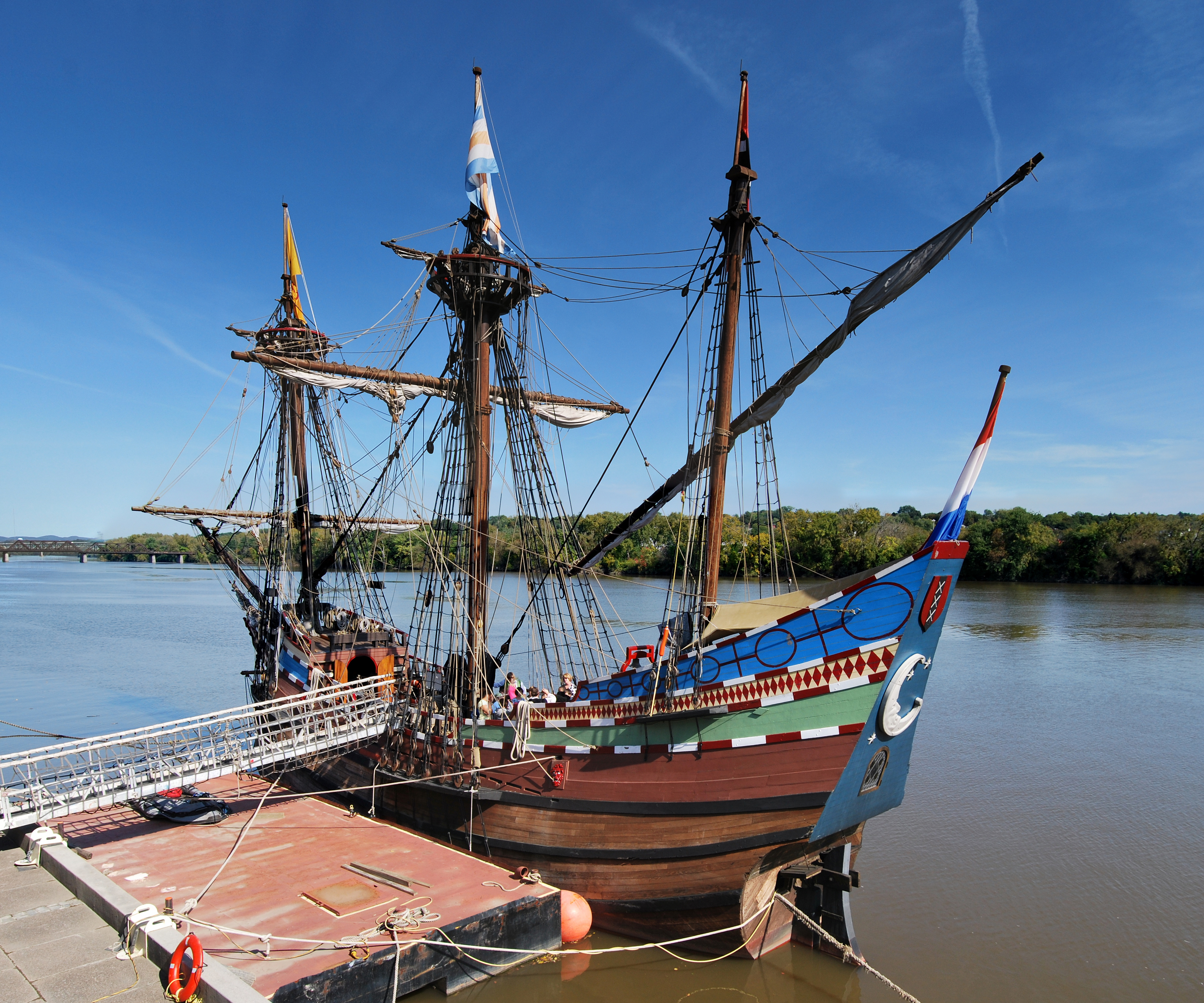 The 2005 replica of the Dutch sailing ship Halve Maen, docked at the Corning Preserve on the Hudson River in Albany, New York